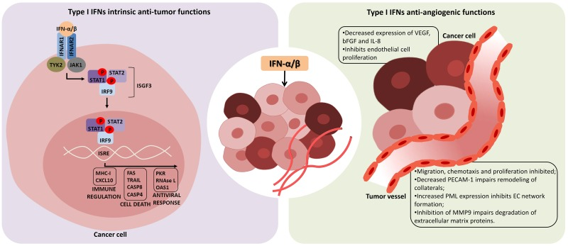 Interferon-α/β (IFN-α/β) has direct effects in tumor cells inducing growth arrest and cell death (left panel). After binding to the heterodimeric IFN-α/β receptor 1 and 2 (IFNAR1/IFNAR2), type I IFNs induce a cascade of intracellular events which culminates in expression of genes whose promoters contain the IFN-stimulated response element (ISRE). In this way, several immuno-regulatory cytokines, cell death factors and proteins related to antiviral response are produced, as well as more IFN-α/β, which in turn affects neighboring cells. In addition, anti-tumor effects of type I IFN may also be a consequence of its anti-angiogenic function, impairing tumor vessel formation and leading to death of tumors by lack of oxygen and nutrients (right panel). IFN-α/β can inhibit the production of angiogenic factors by tumor cells, and directly affects endothelial cells (EC), inhibiting their proliferation and secretion of factors responsible for EC chemotaxis and remodeling of extracellular matrix. Tyrosine kinase 2 (TYK2), Janus kinase 1 (JAK1), signal transducer and activator of transcription (STAT), IFN-regulatory factor 9 (IRF9), IFN-stimulated gene factor 3 (ISGF3), vascular endothelial growth factor (VEGF), basic fibroblast growth factor (bFGF), interleukin-8 (IL-8), platelet endothelial cell adhesion molecule-1 (PECAM-1), promyelocytic leukemia protein (PML), matrix metalloproteinase 9 (MMP9).